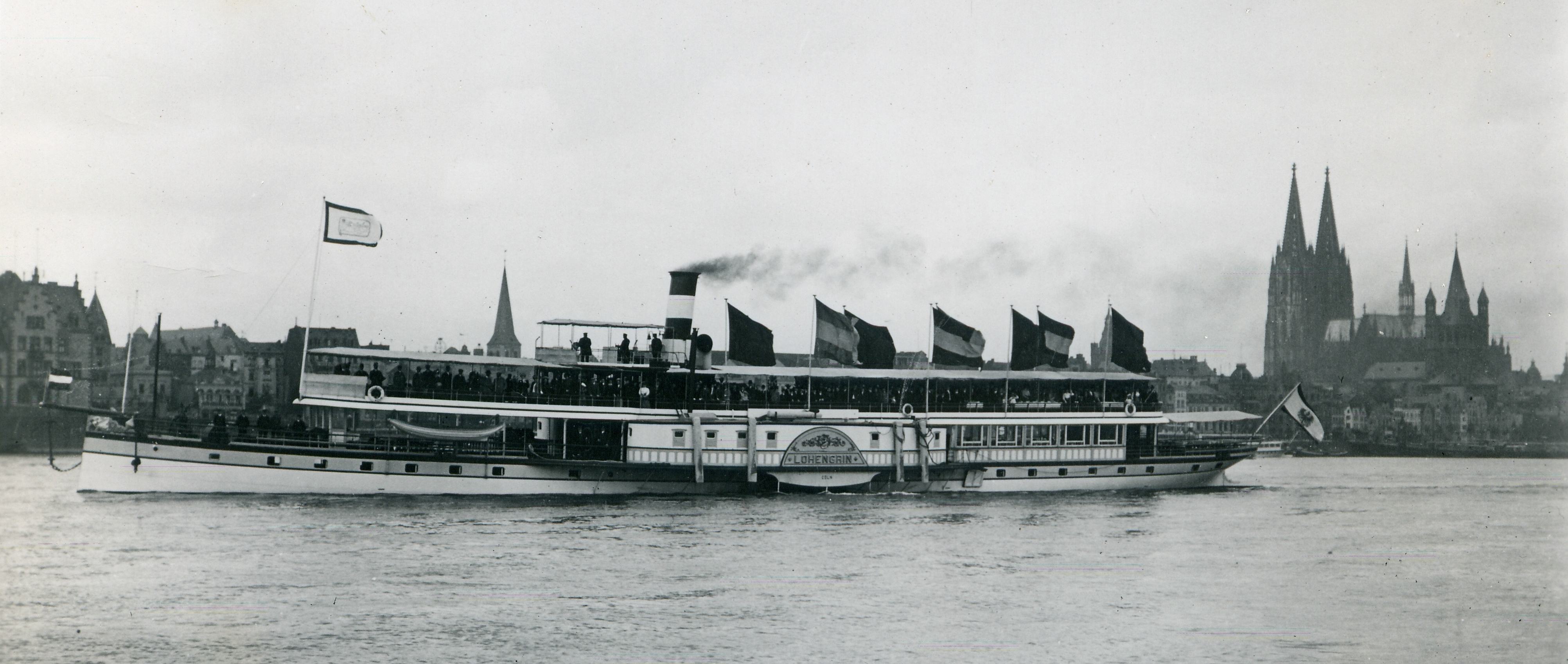 200 years anniversary celebration of Johann Maria Farina gegenüber dem Jülichs-Platz, 1909